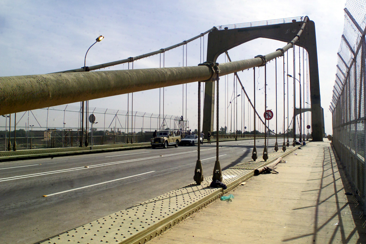 The 14th of July Bridge reopened for the first time since the fall of Saddam's regime after a ribbon-cutting ceremony held 25 October 2003. The 14th of July Bridge serves as a major transportation artery which allows access to the northwestern part of Baghdad. Curiously, nobody thought of changing its name, which celebrates the inception of Baathist rule. Baghdad 's first suspension bridge links the Karkh and Karadah districts on the north and south side of Baghdad. It was damaged during the first Gulf War, but was never repaired by the former regime. Realizing it was unsafe for use, Coalition forces closed the bridge when they entered Baghdad in April 2003. The newly repaired bridge will alleviate traffic build-up and allow drivers a direct route across the Tigris River. When the bridge was closed, people had to spend an extra twenty minutes to drive around the river. A bomb attack in central Baghdad on 13 November 2003 prompted the coalition to close the Bridge. The 14th of July Street (Arbataash Tamuz Street) which runs over the 14th of July Bridge (Arbataash Tamuz Bridge) runs between the Presidential Palace and the New Presidential Palace, both of which are in use by the Coalition Provisional Authority. Closing the Bridge would seal a potential point of access into the heart of the Green Zone.